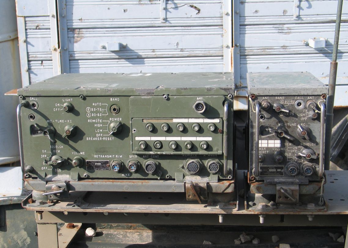 Description: RT-246 reciever-transmitter and R-442 reciever in Yad la-Shiryon Museum, Israel. 2005. Source: Photo by me, User:Bukvoed